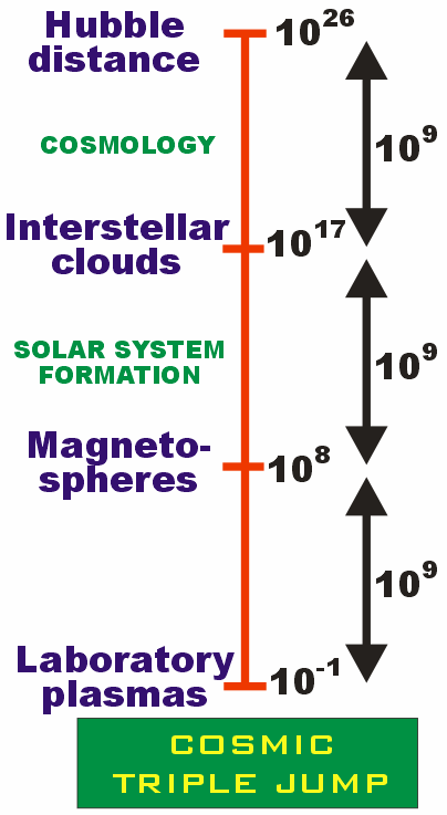 Cosmic Triple Jump. Hannes Alfvén suggested that by scaling laboratory plasma experiment results by a factor of 109 makes them applicable to magnetospheric conditions. Another scaling jump of 109 makes the results applicable to galactic conditions, and a third jump of 109 takes us out to the Hubble distance. Image created by Ian Tresman, based on the illustration in On hierarchical cosmology by Alfven, H., in Astrophysics and Space Science (ISSN 0004-640X), vol. 89, no. 2, Jan. 1983, p. 313-324.